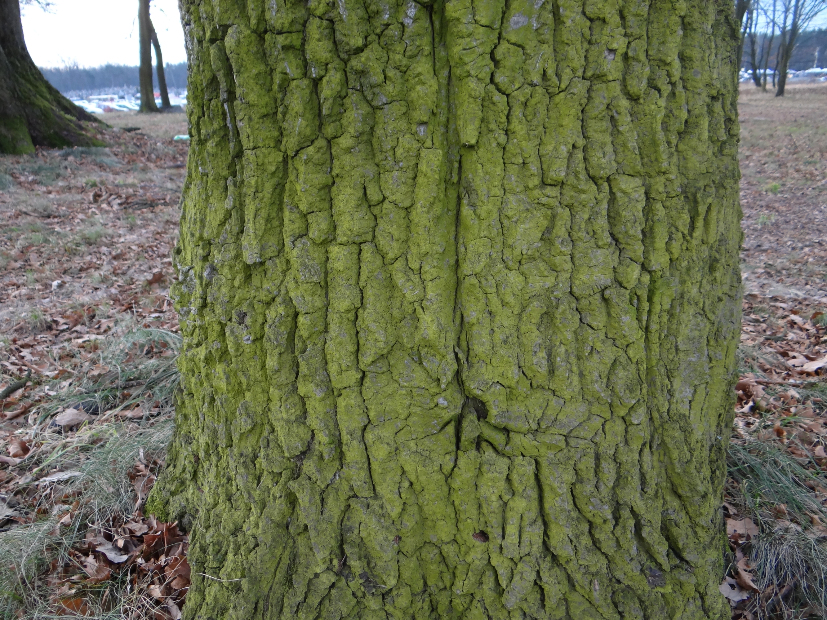 Pleurococcus (location:Poland)